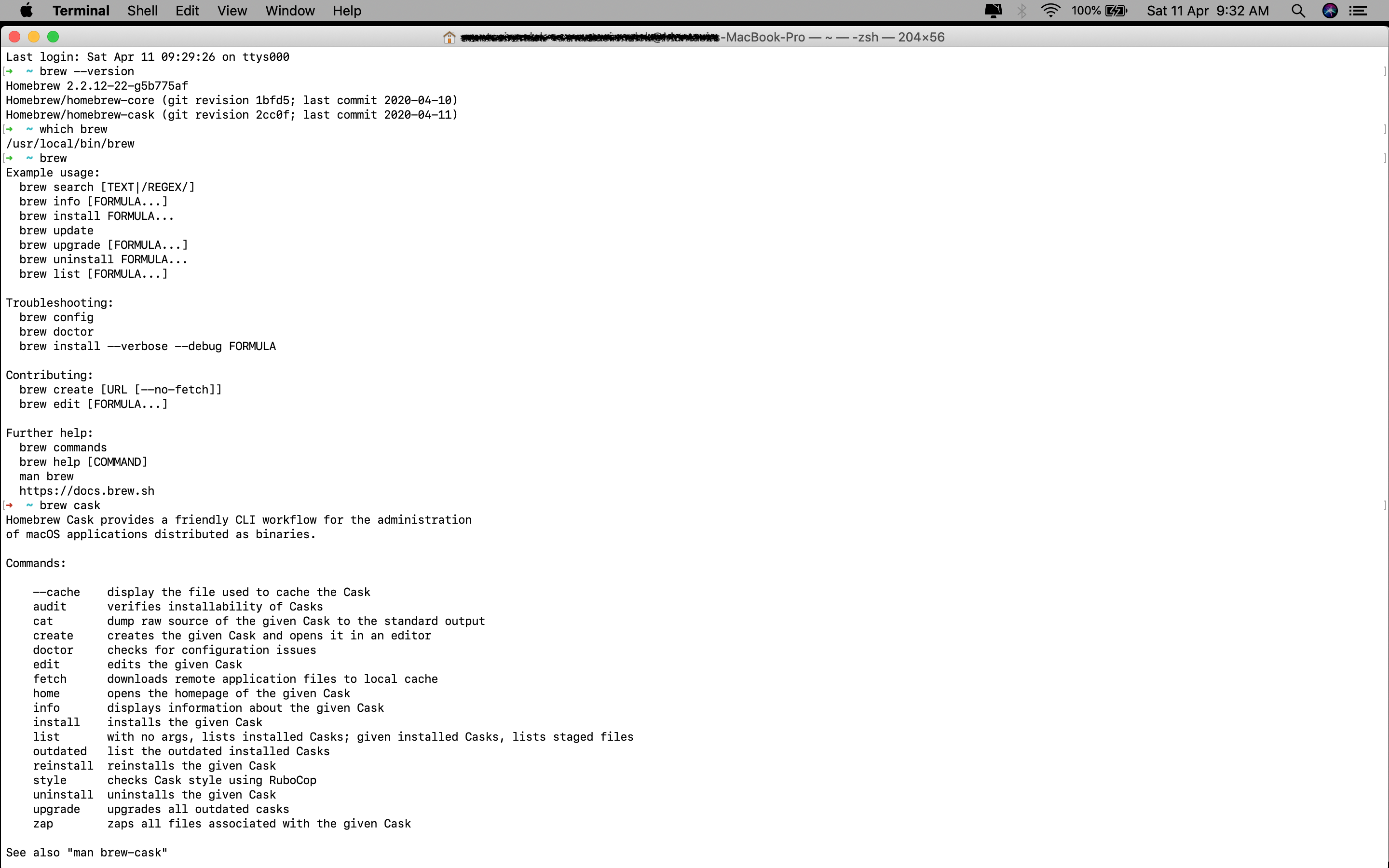 Sample of Homebrew 2.2.12 in Mac Terminal